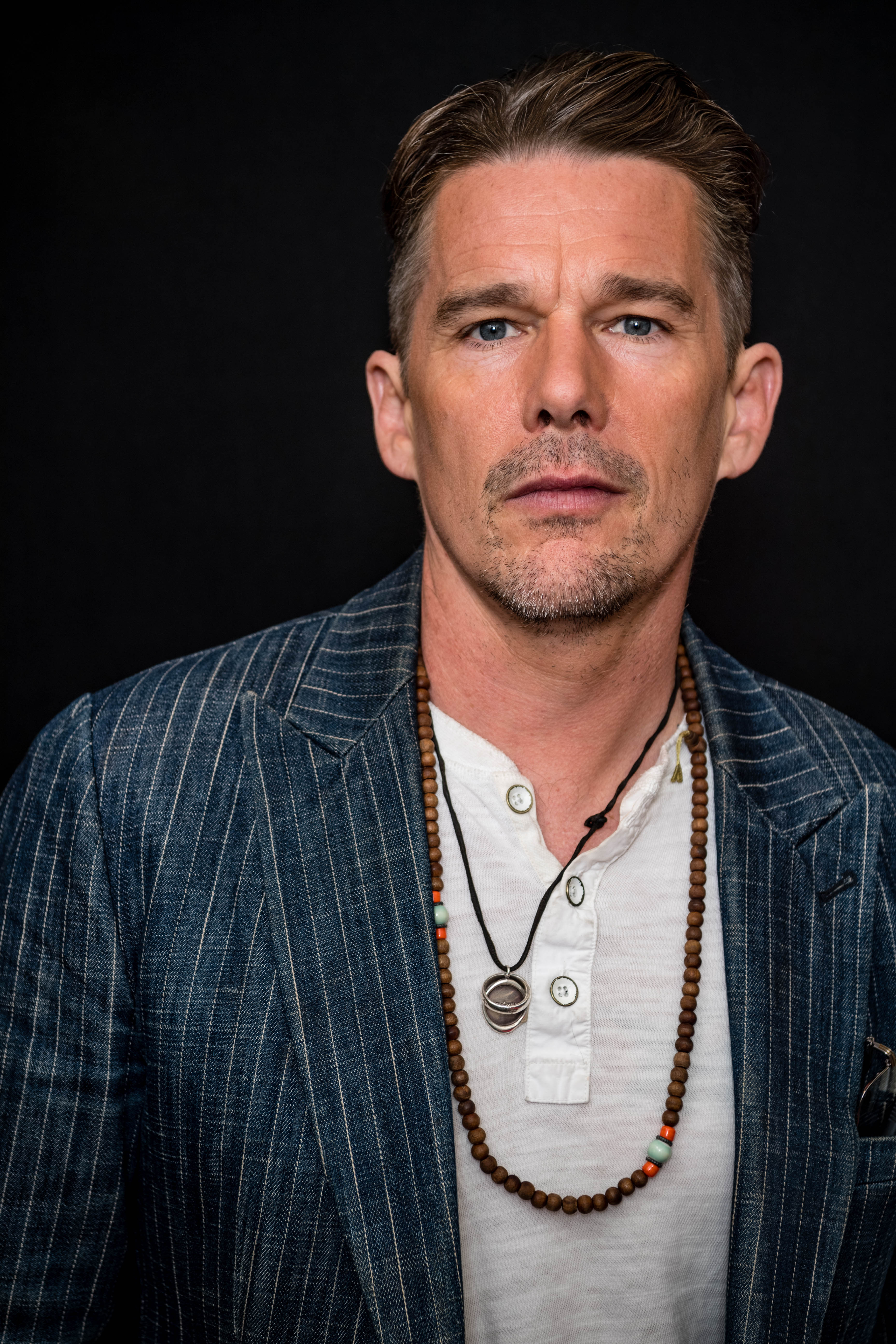 photo by "Neil Grabowsky / Montclair Film"